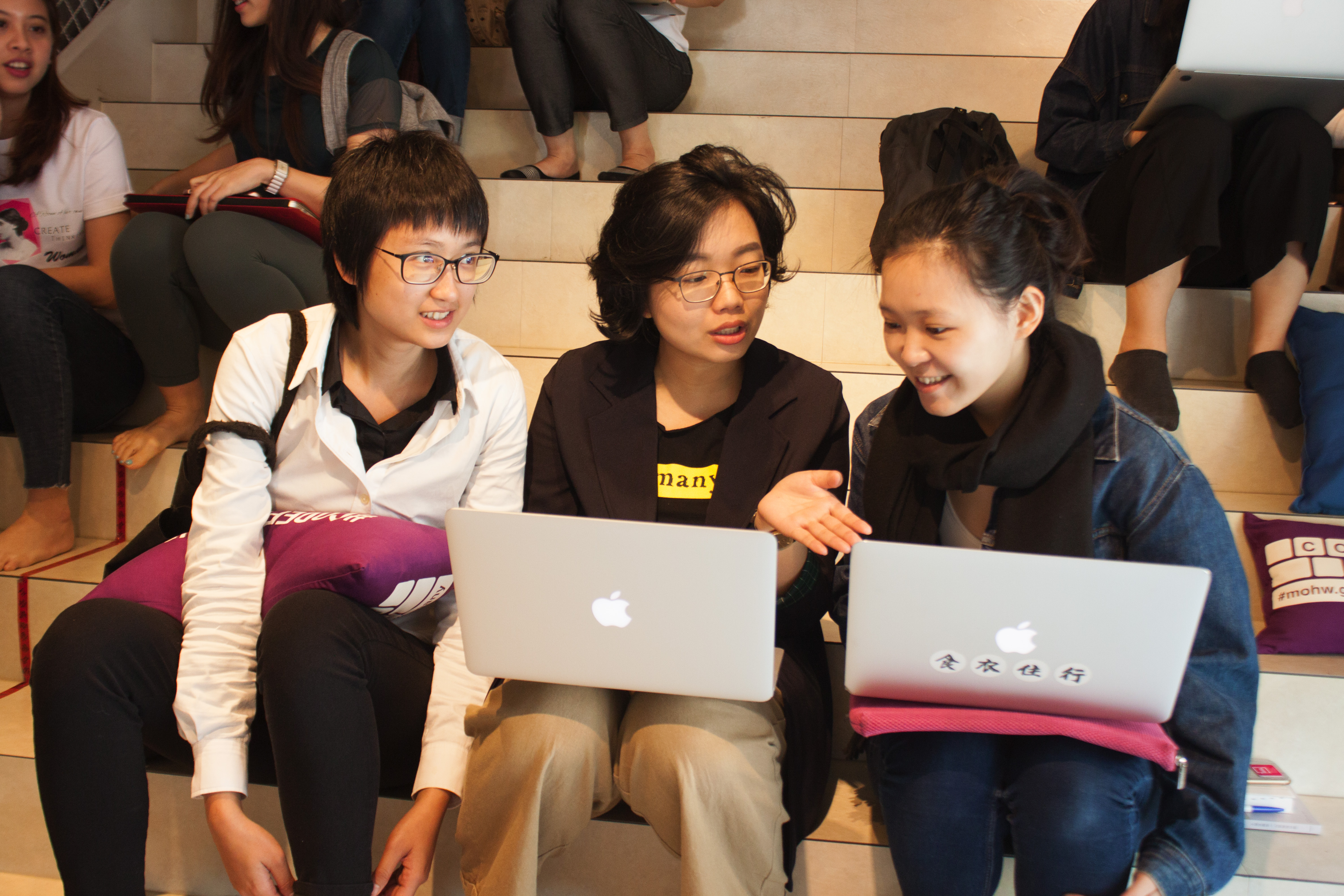 2018Taiwan Art+Feminism Editathon